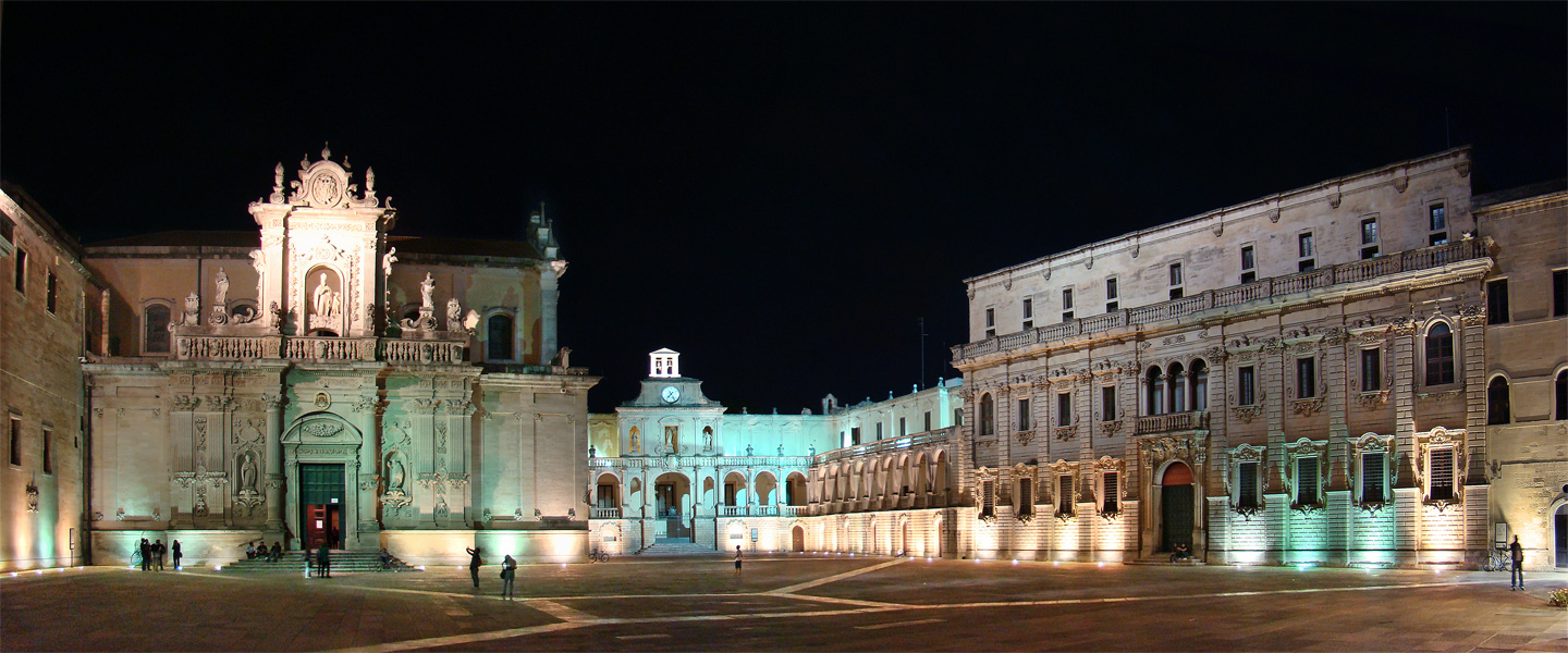 Piazza del Duomo, Lecce, Apulia, Italy.